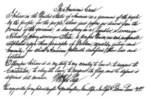 Scan of a copy of the Creed, handwritten and signed by WTP and presented to his daughter and grand-daughters (one of which is the article author's mother). No copyright applies.